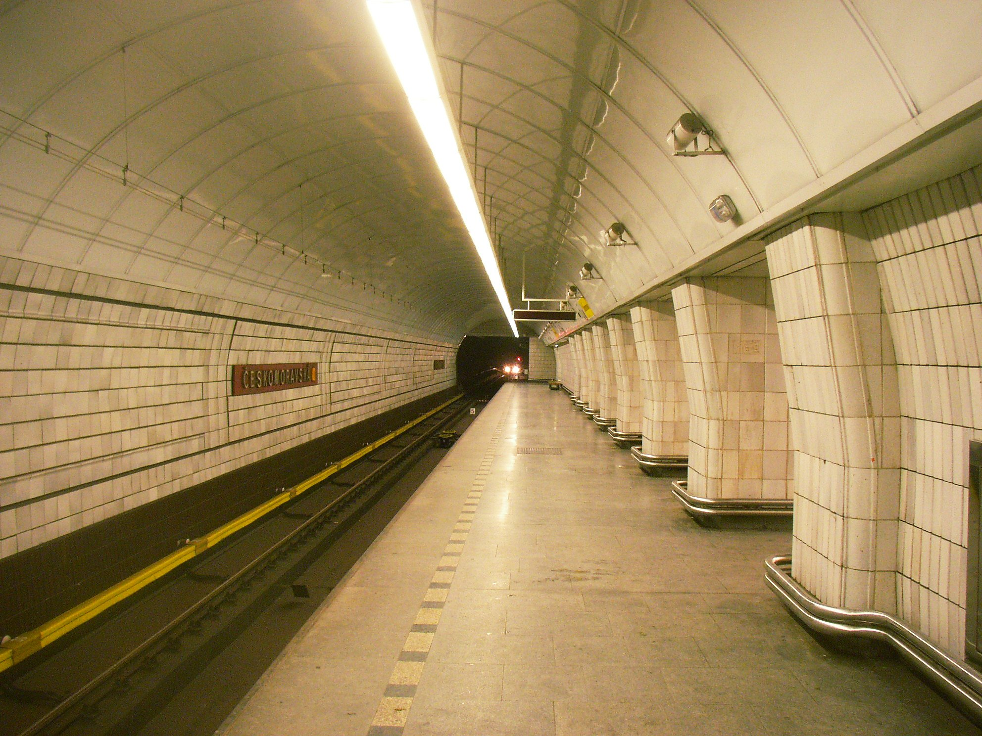 Českomoravská metro station in Prague, Czech Republic.